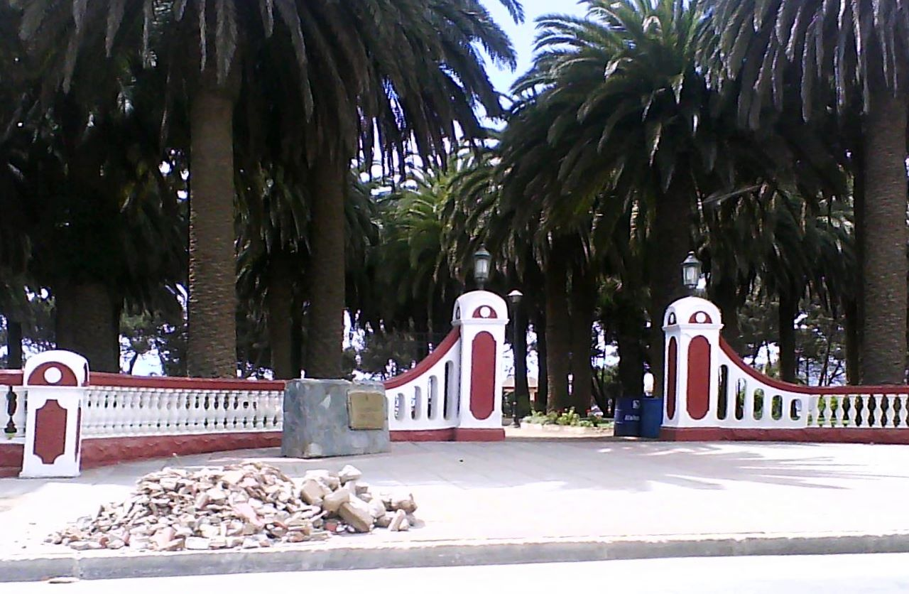 Ross Park entrance after the 2010 Pichilemu earthquake. It is a cropped version of the original file.